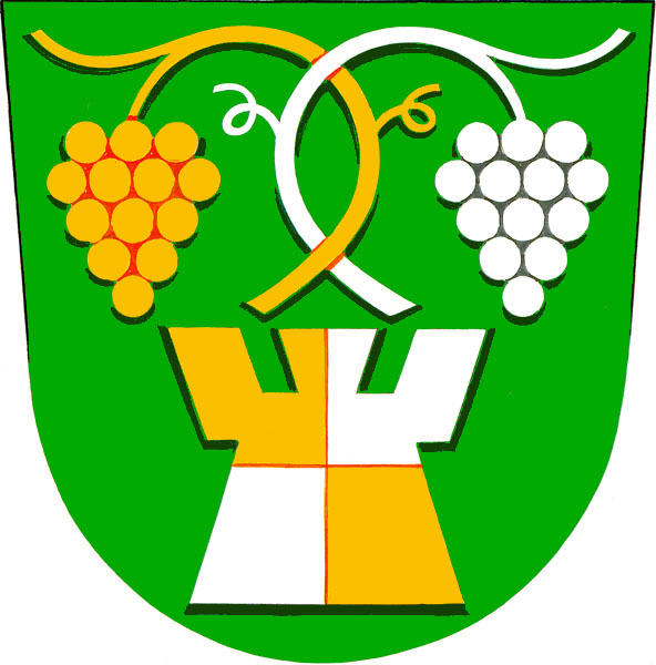 Municipal coat of arms of Tučapy village, Uherské Hradiště District, Czech Republic.